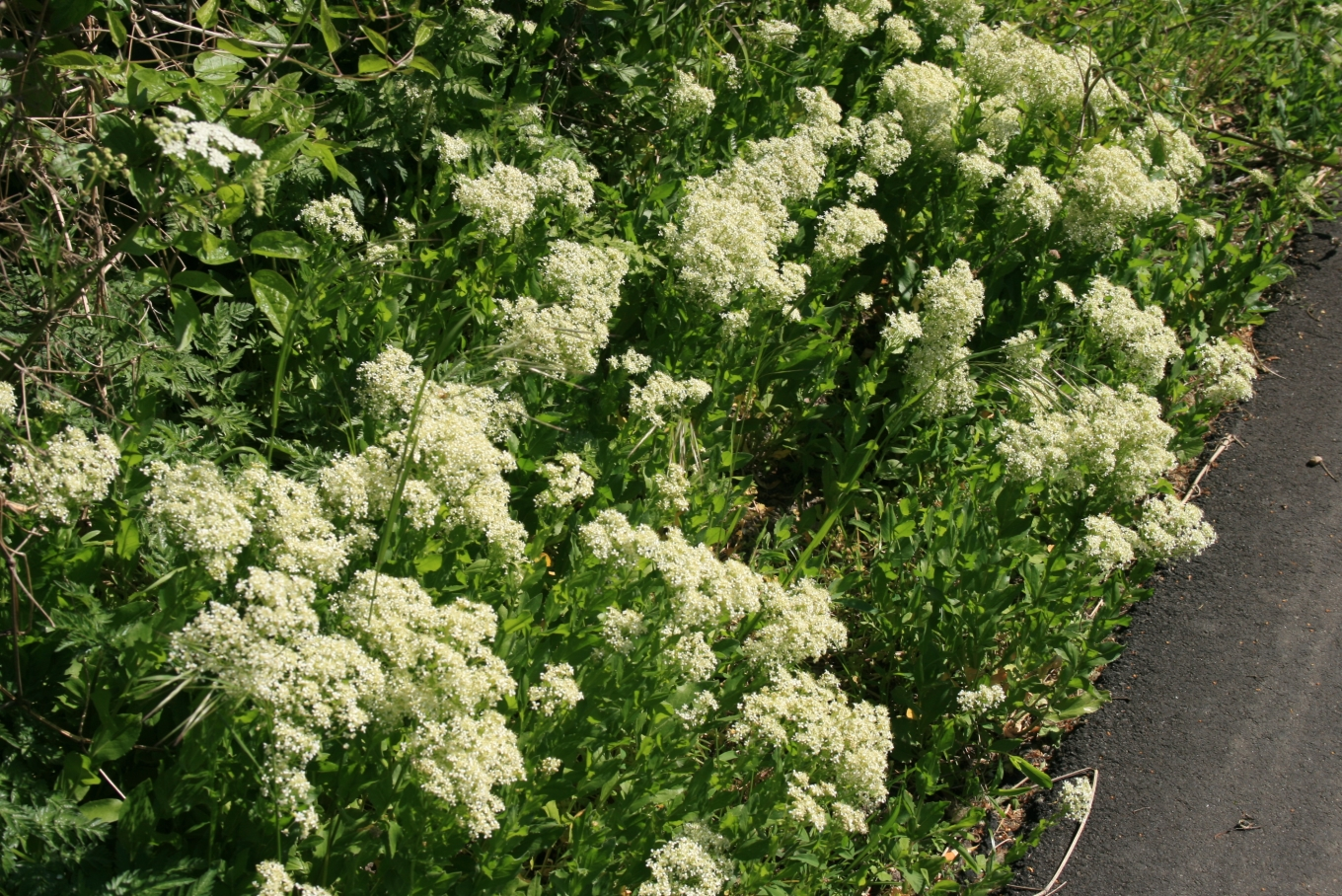 Lepidium draba: Habitus